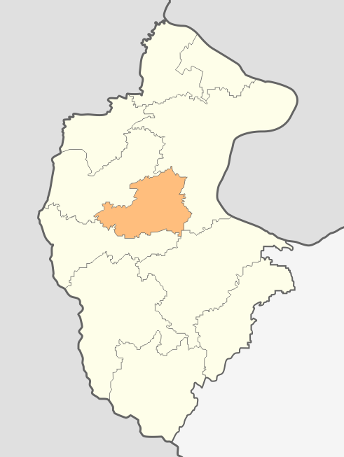 Map of Gramada municipality, Vidin Province